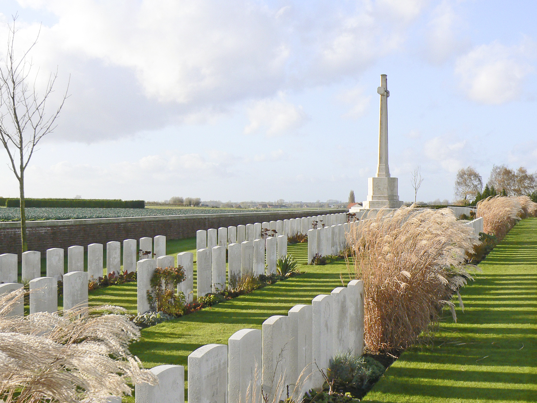 Dochy_Farm_New_British_Cemetery. Graves and Cross of Sacrifice